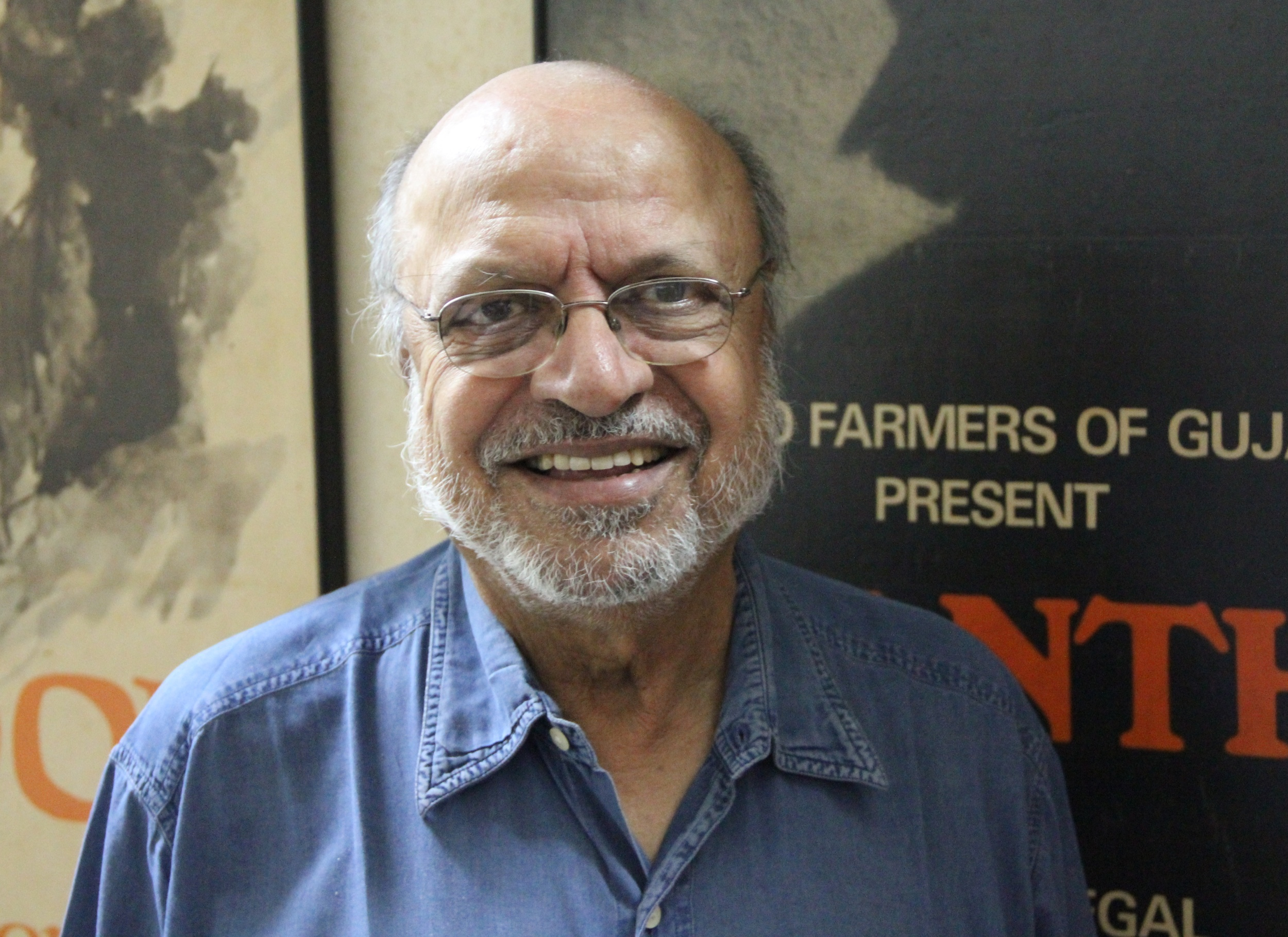 Photograph of Shyam Benegal in his office in Mumbai, India, in 2010